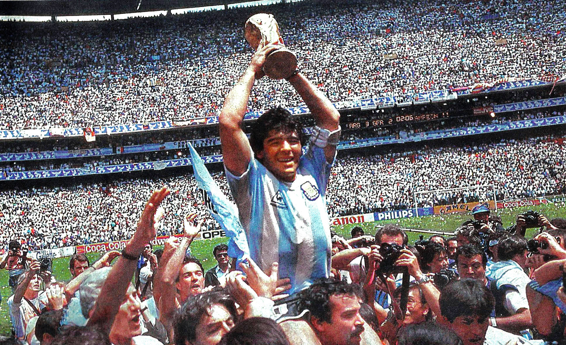 Diego Maradona holding the FIFA World Cup at the Estadio Azteca of Mexico, celebrating the 2nd. title won by Argentina.